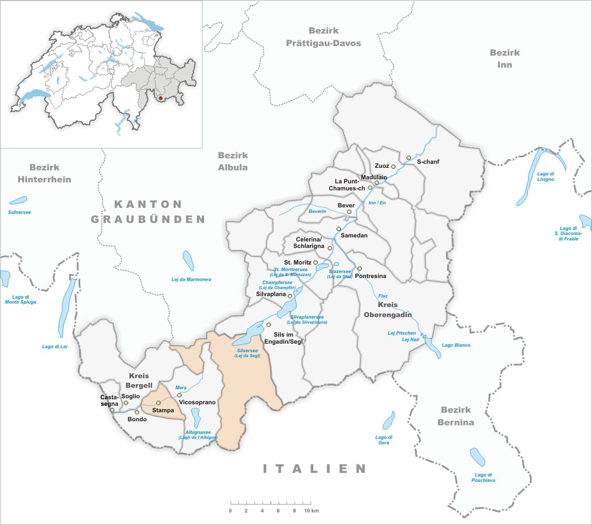 Municipality Stampa